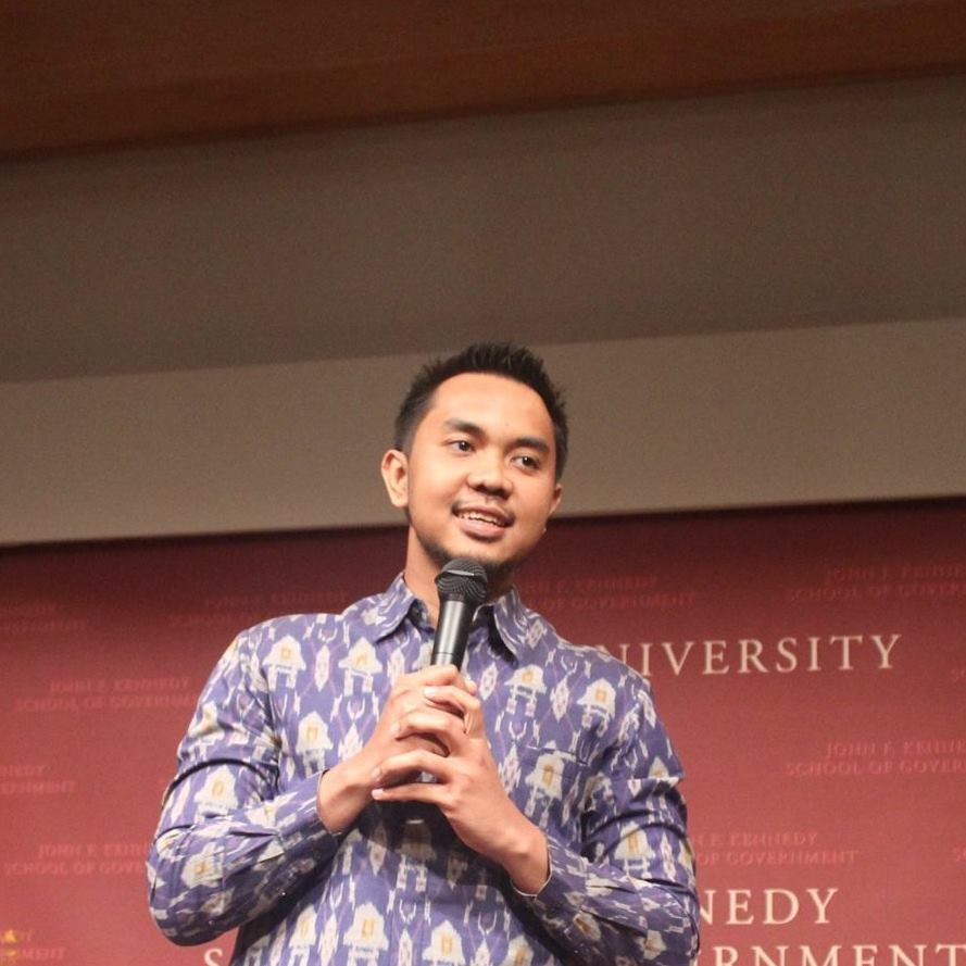 Taufan is in one speaker in Harvard University seminar.